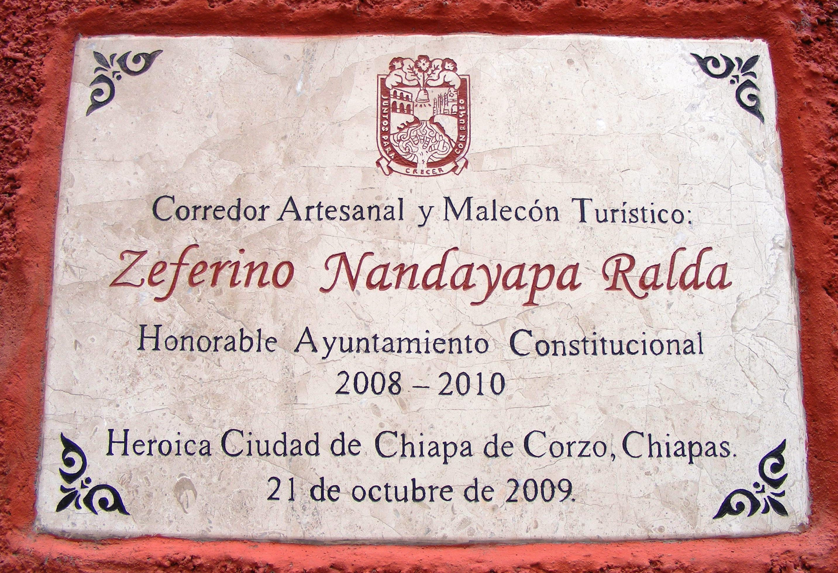 Waterfront and Corridor Zeferino Nandayapa.